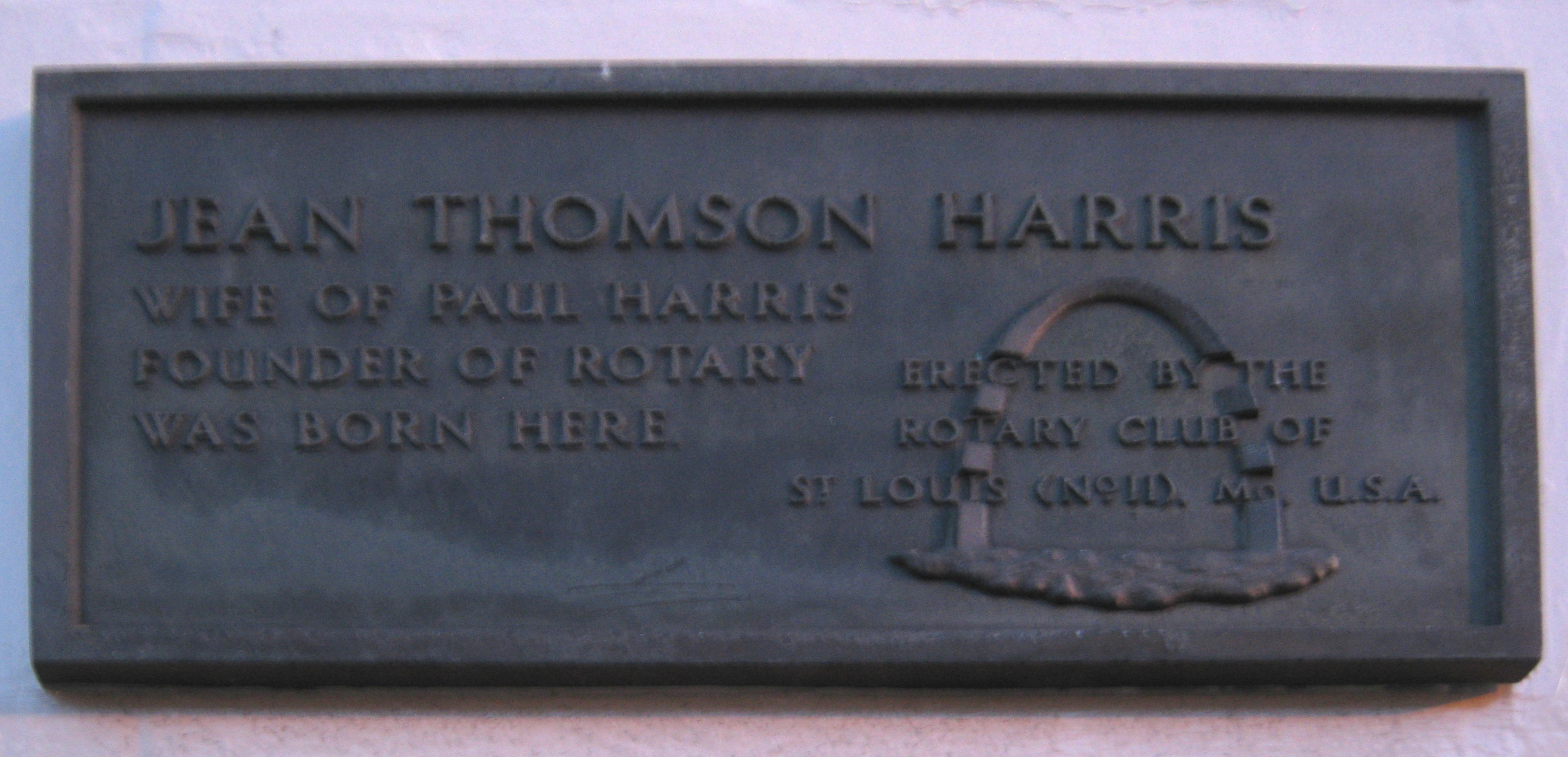 Wife of Paul Harris founder of Rotary was born here.